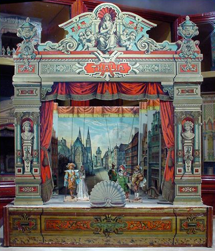 On display in Pickfords House, Derby. The toy theatre developed from the art of the caricaturist which flourished in England during the late eighteenth and early nineteenth centuries. These miniature theatres show an entire theatre including stage, scenery, characters and audience with boxes occupied by elegant ladies in beautiful gowns, accompanied by escorts in splendid uniforms or evening dress. Even the orchestra was shown. The toy theatre became one of the most popular pastimes, not only in England, but also in most European countries.